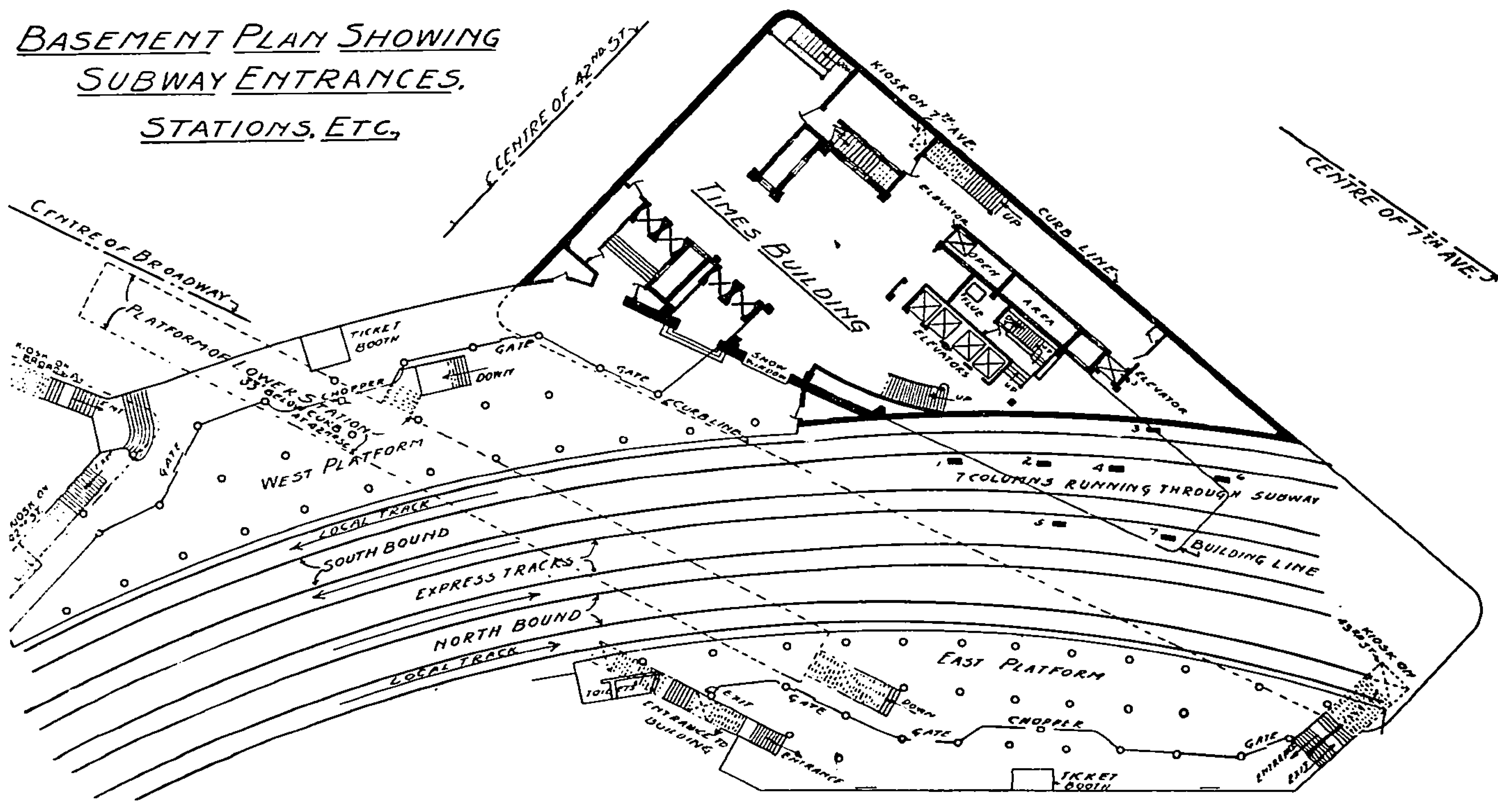 "Basement Plan Showing Subway Entrances, Stations, Etc." Plan of one of the lower levels of the then-new headquarters of The New York Times, the Times Building, today known as One Times Square, showing the Times Square Station of New York City's first subway line, which opened on October 27, 1904.